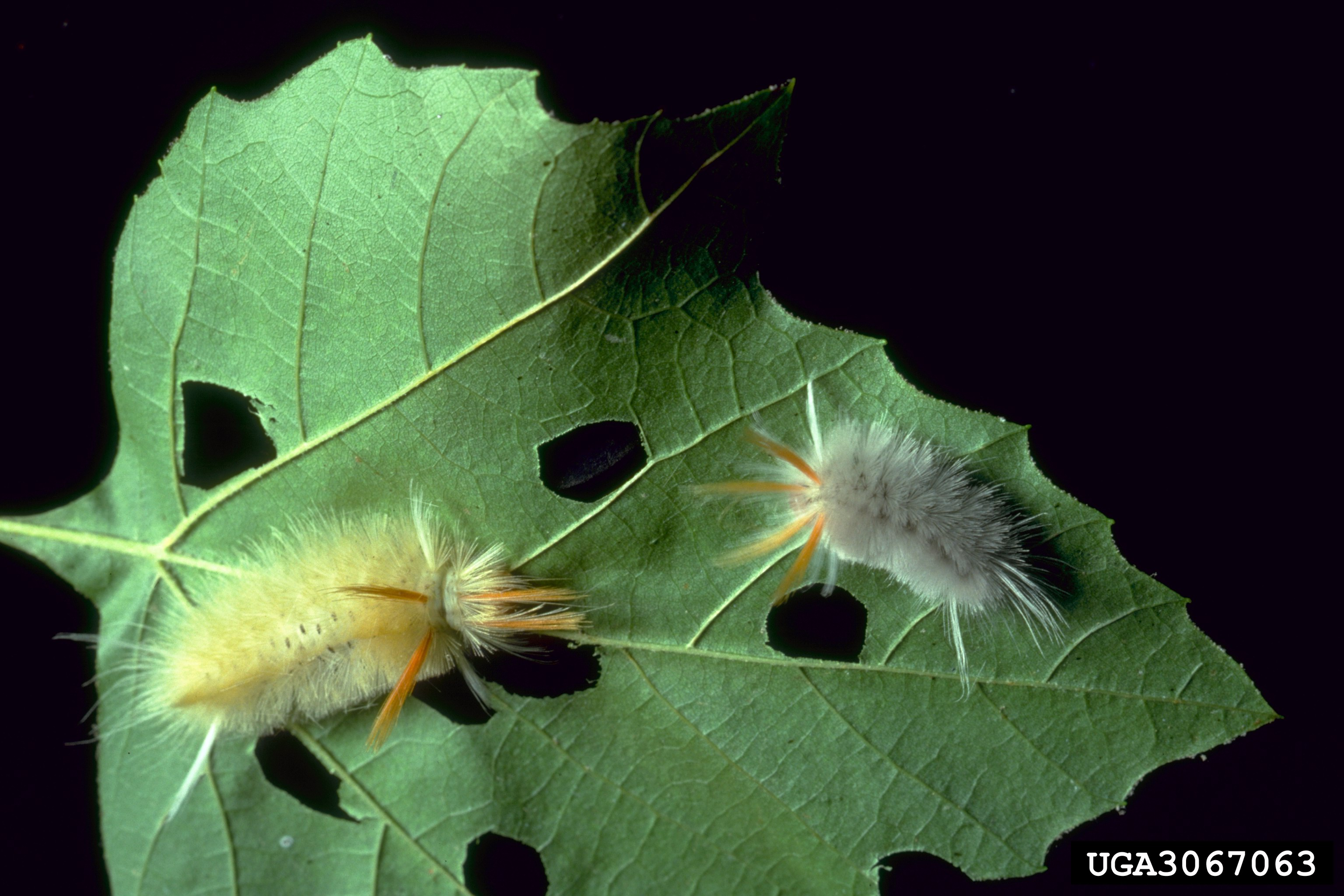 Halysidota_harrisii_larva